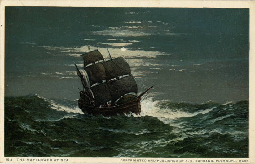 Copyrighted and Published by A S Burbank, The Mayflower at Sea